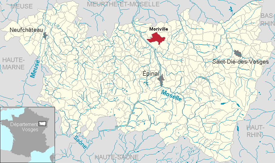 Moriville in the department of Vosges, Lorraine, France